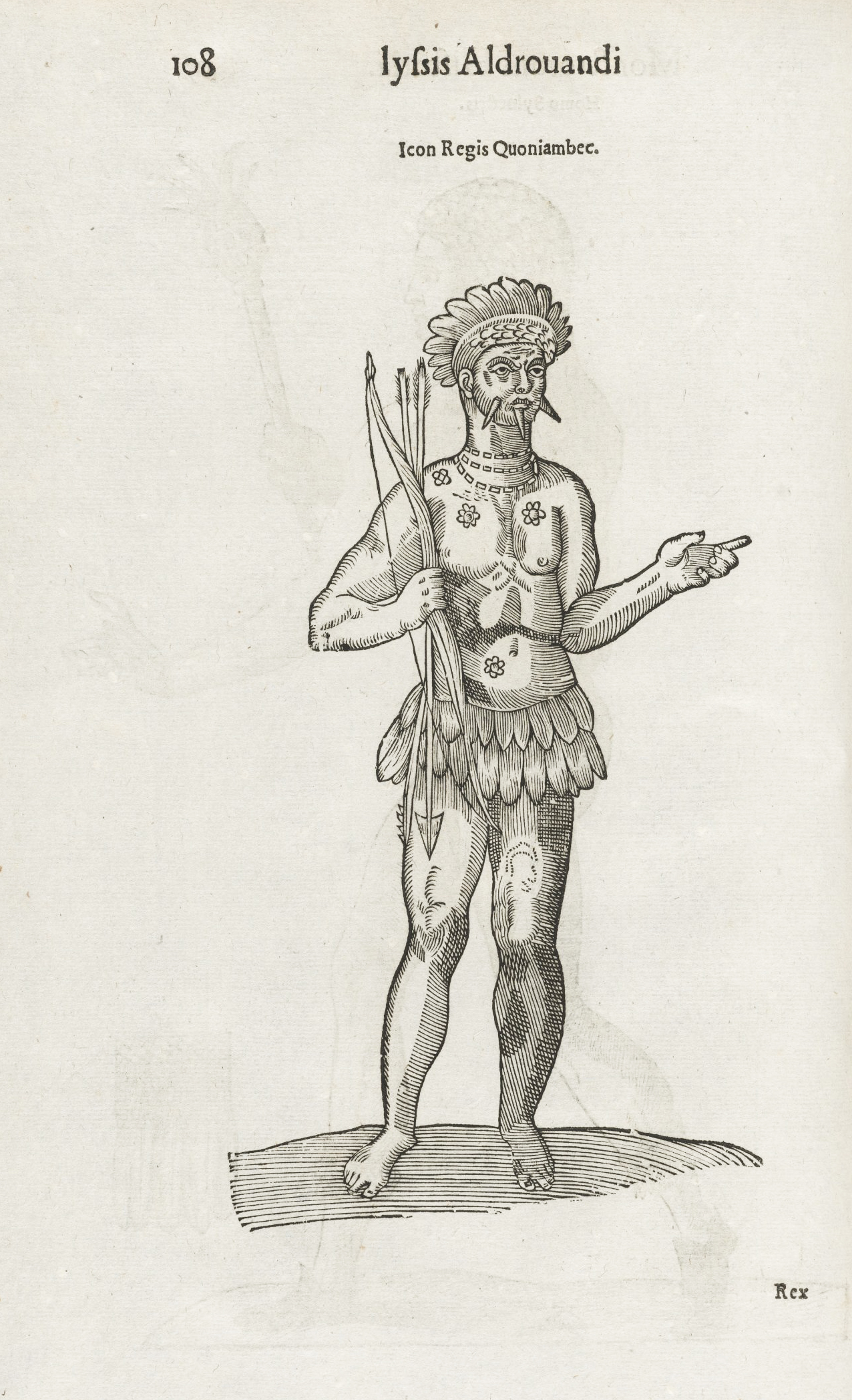 "Icon Regis Quoniambec" an illustration from Monstrorum Historia: Cum Paralipomenis historiae omnium animalium, Bononiae: 1642, by Ulisse Aldrovandi (1522-1605?). *51-897, Houghton Library, Harvard University